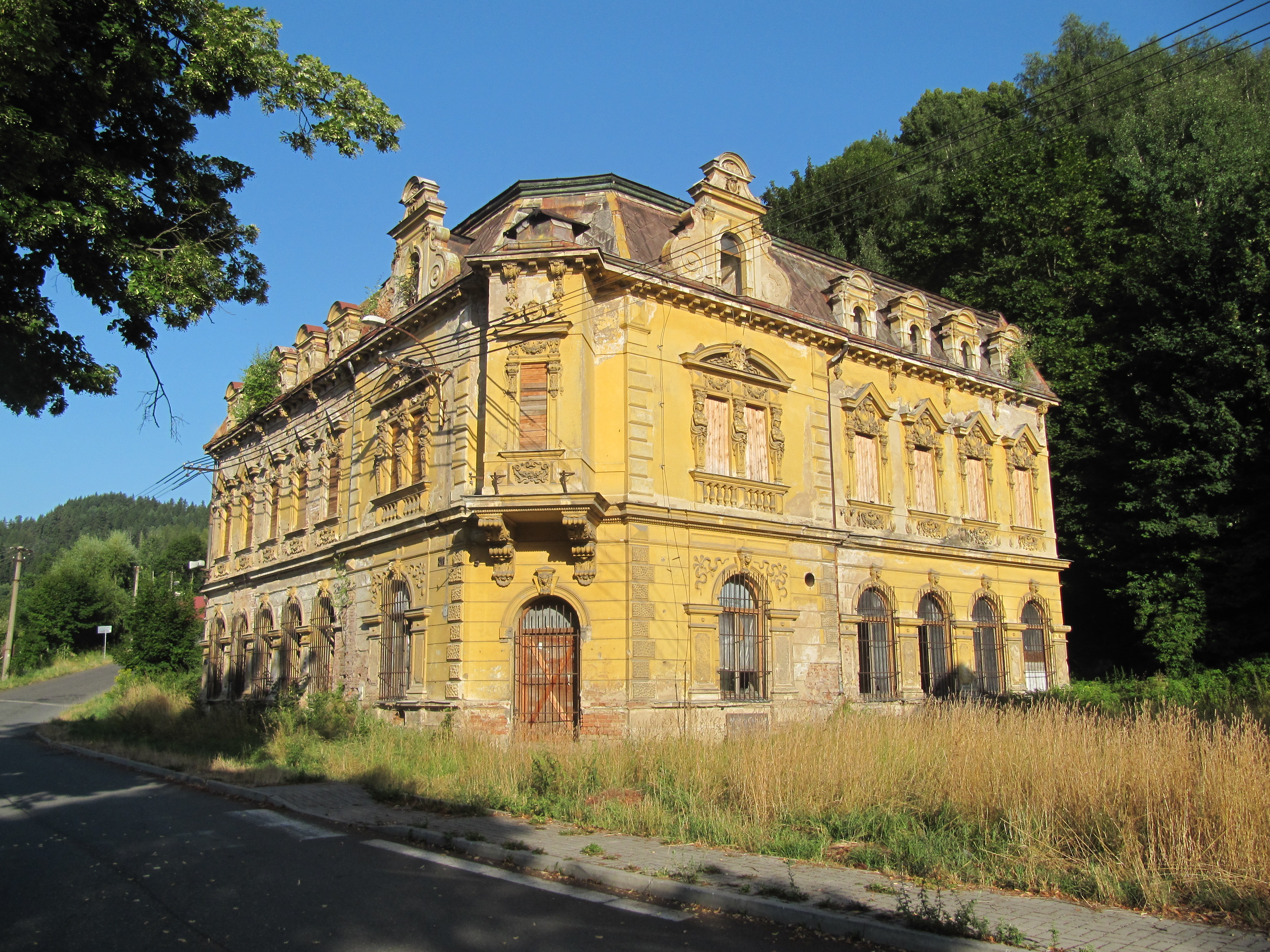 Bečov nad Teplou, Karlovy Vary District, Czech Republic. Former Central hotel.